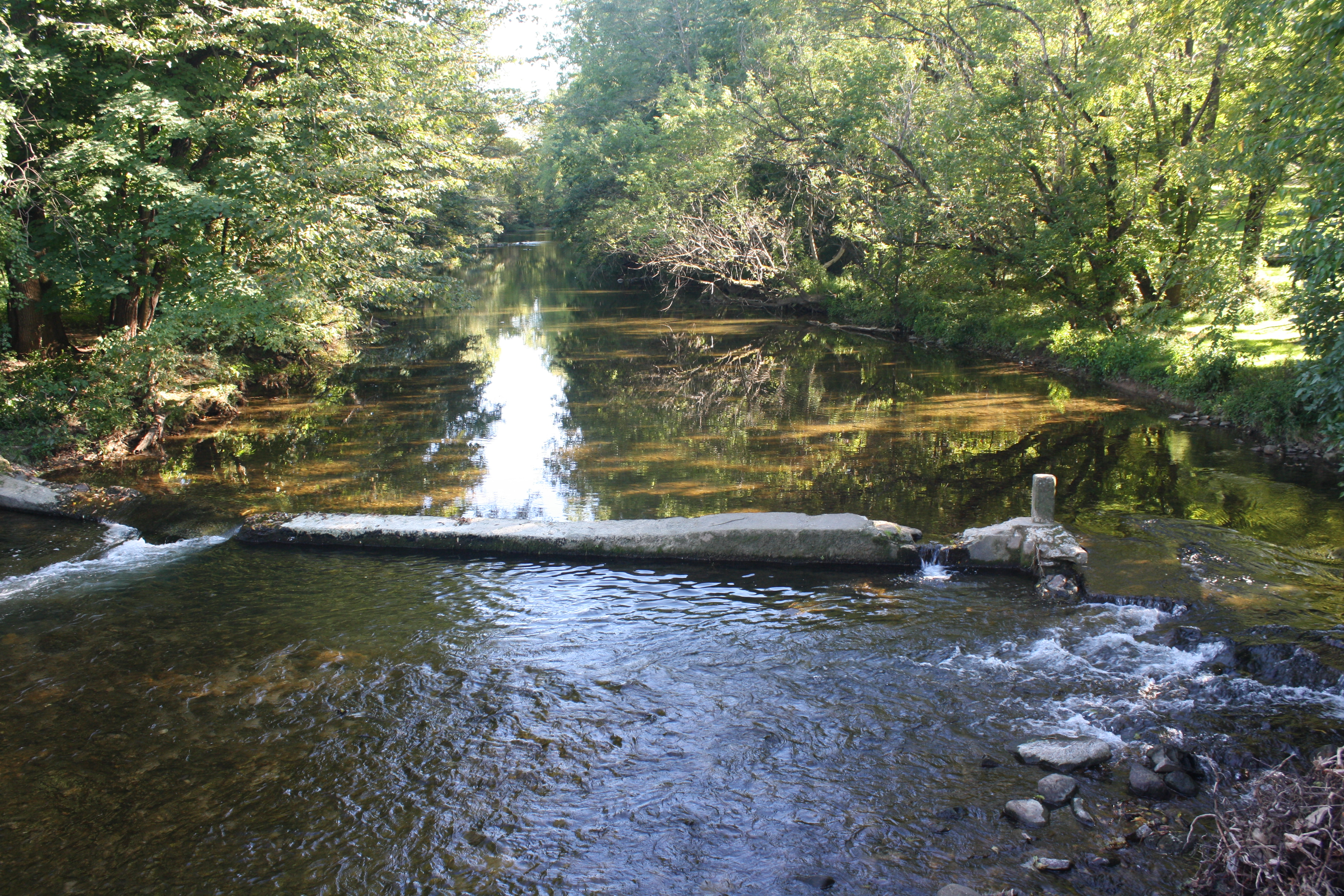 Saucon Creek in Hellertown, Pennsylvania. View from Friedensville Road bridge. Heading south.